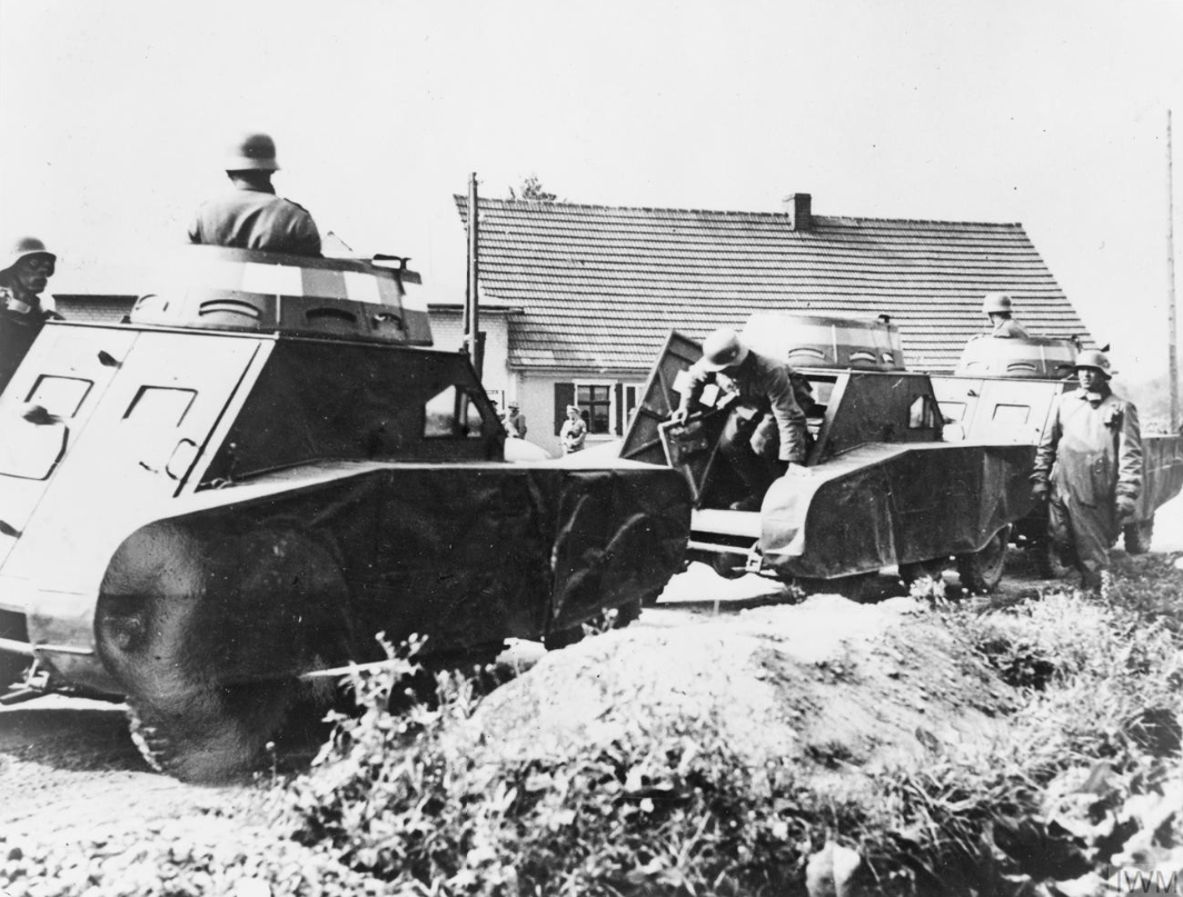 Panzer-attrappen of Reichswehr ; German dummy tanks ; attrappen or Tankattrappen.